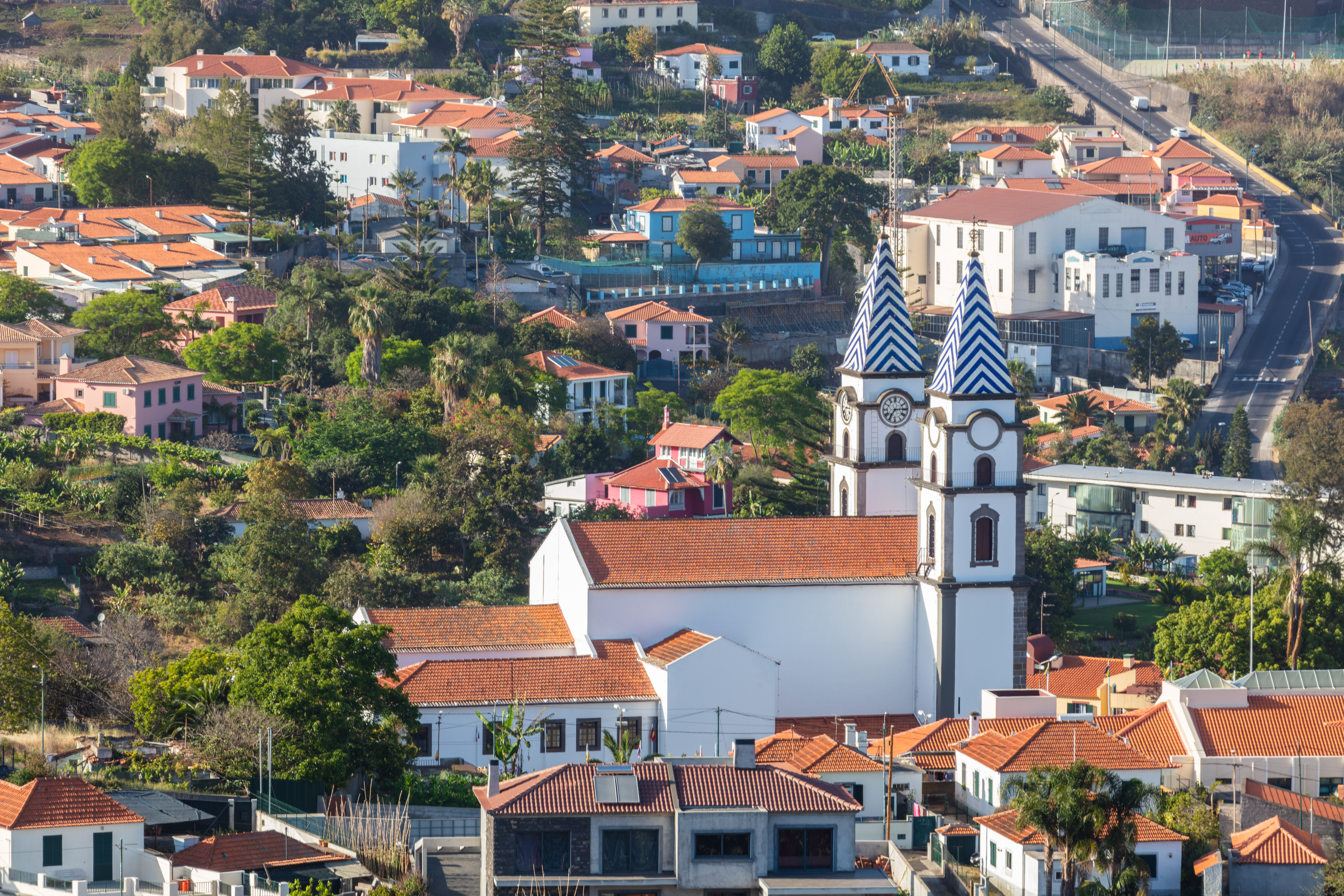 Church of St Anthony, Funchal, Madeira, Portugal